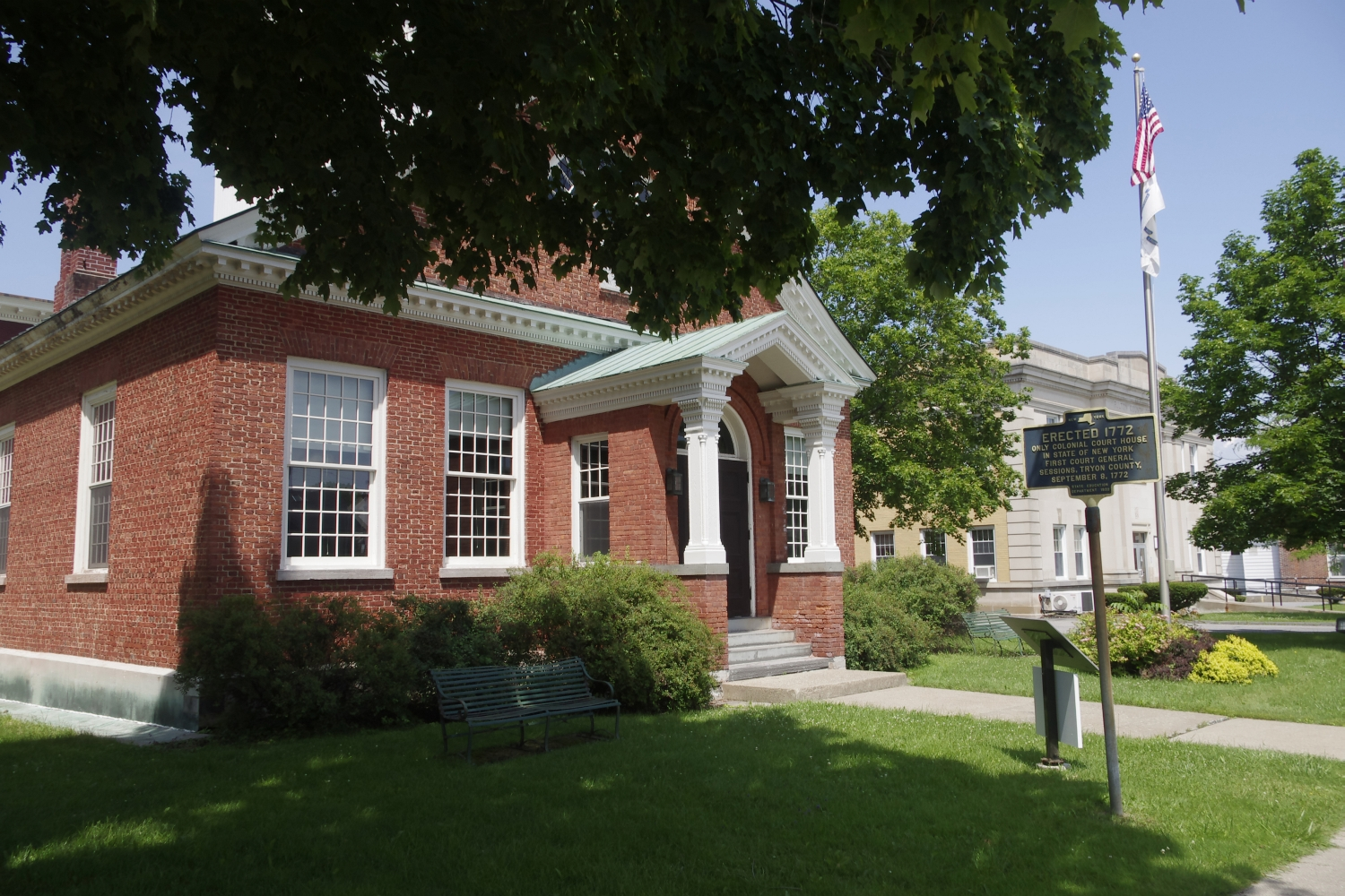 Fulton County Courthouse in Johnstown, New York